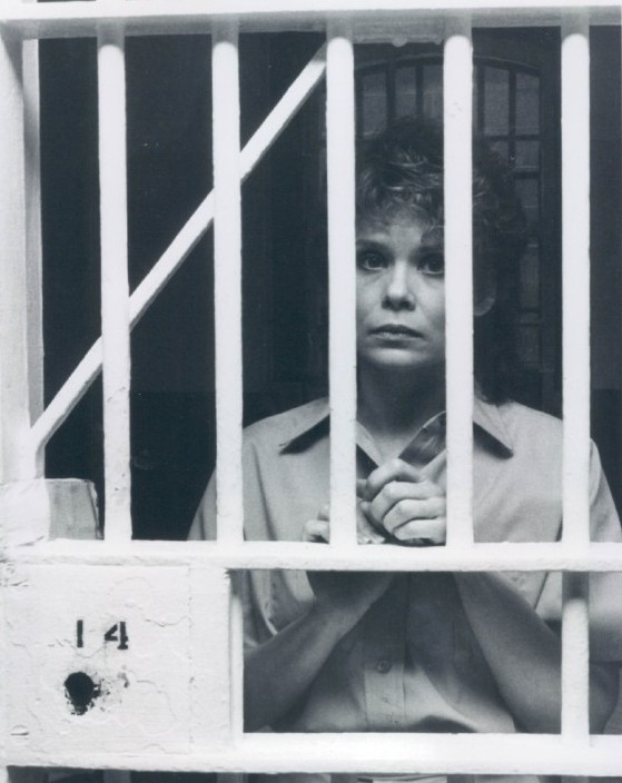 Publicity photo of Julia Barr in All My Children